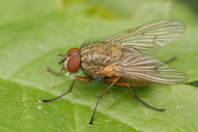 Phaonia angelicae from Commanster, Belgian High Ardennes .